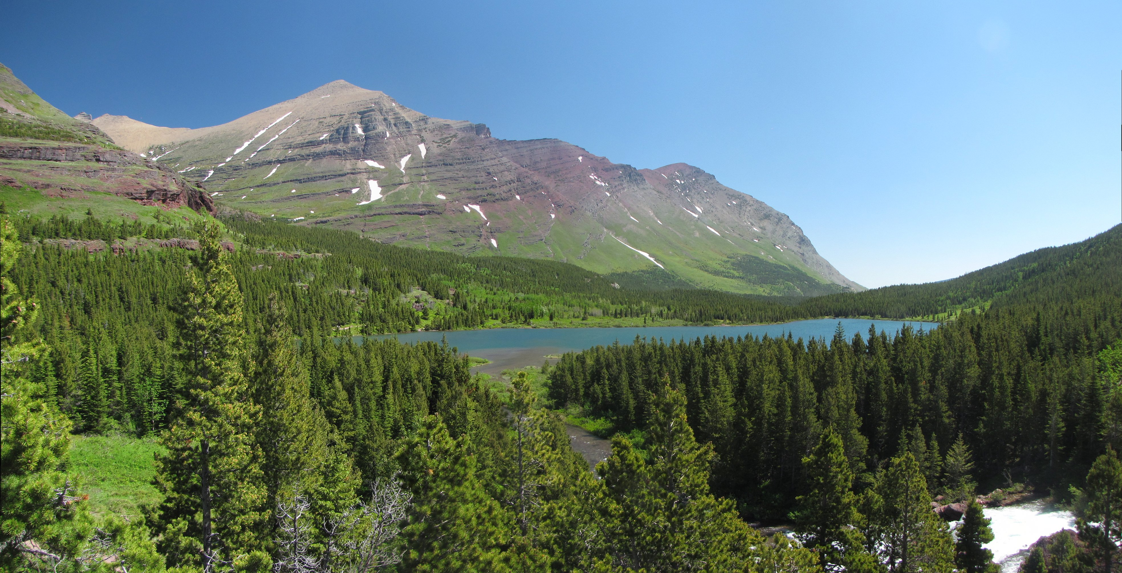 Redrock Lake, from above Redrock Falls looking towards Mount Henkel and Altyn Peak